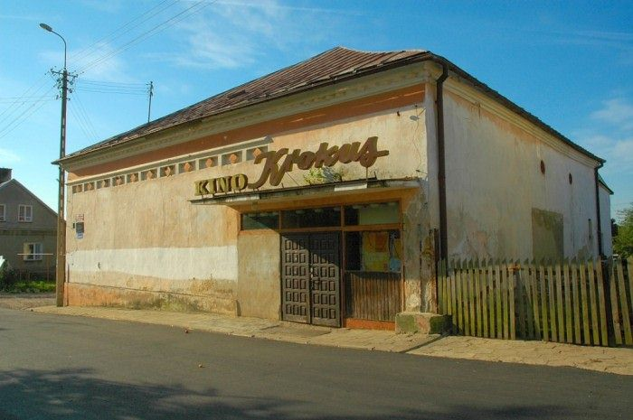 Caucasus Synagogue in Krynki